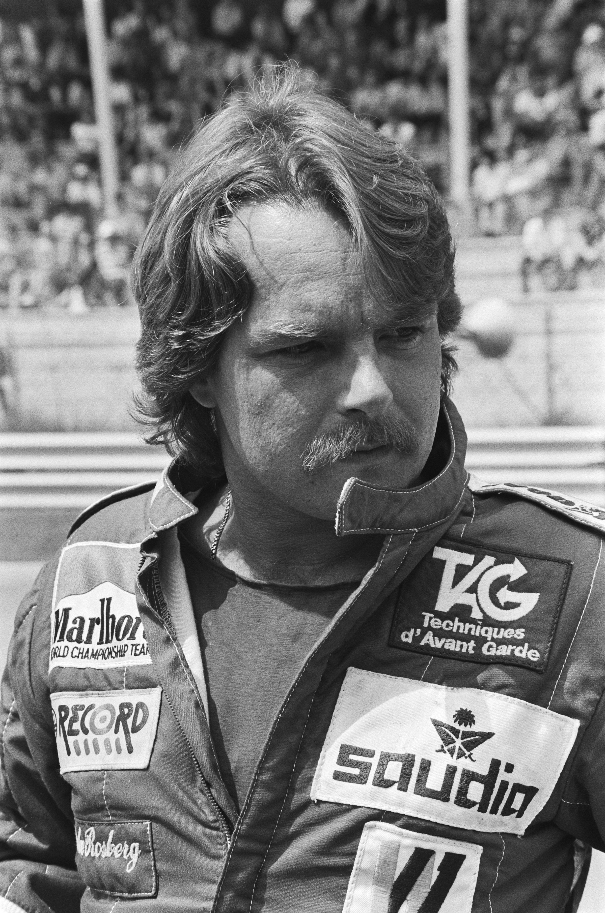 Keke Rosberg in a black and white photographic portait taken at the 1982 Dutch Grand Prix